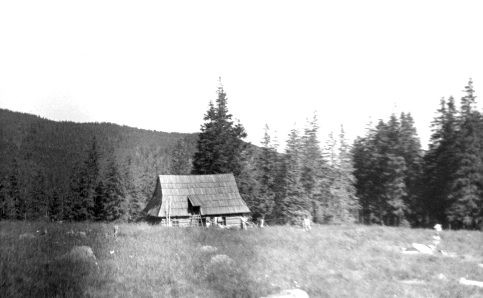 Rusinowa Polana